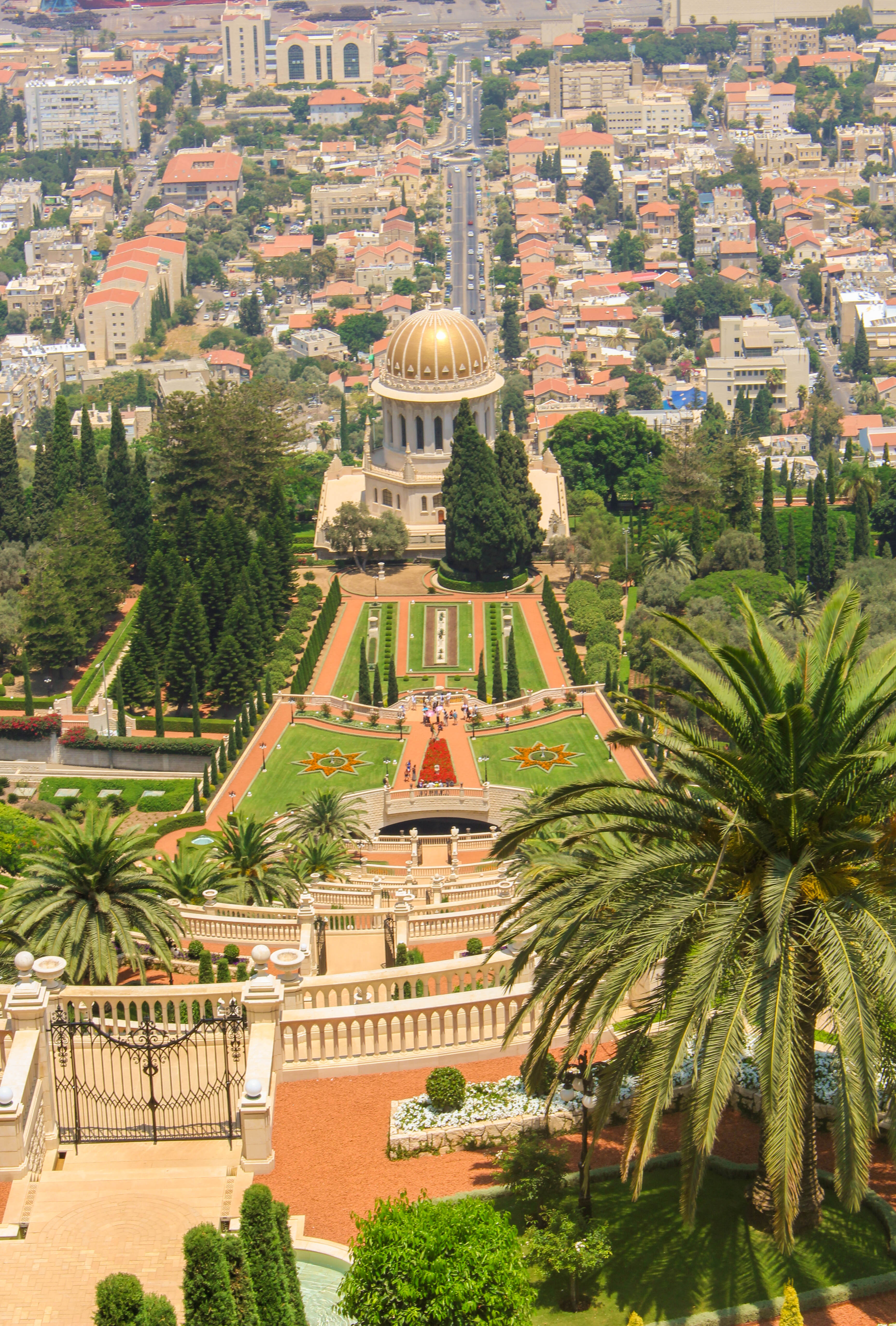 this photo shows the Baha'en Garden in Haifa city, which considered one of the best landscapes and views in the world.